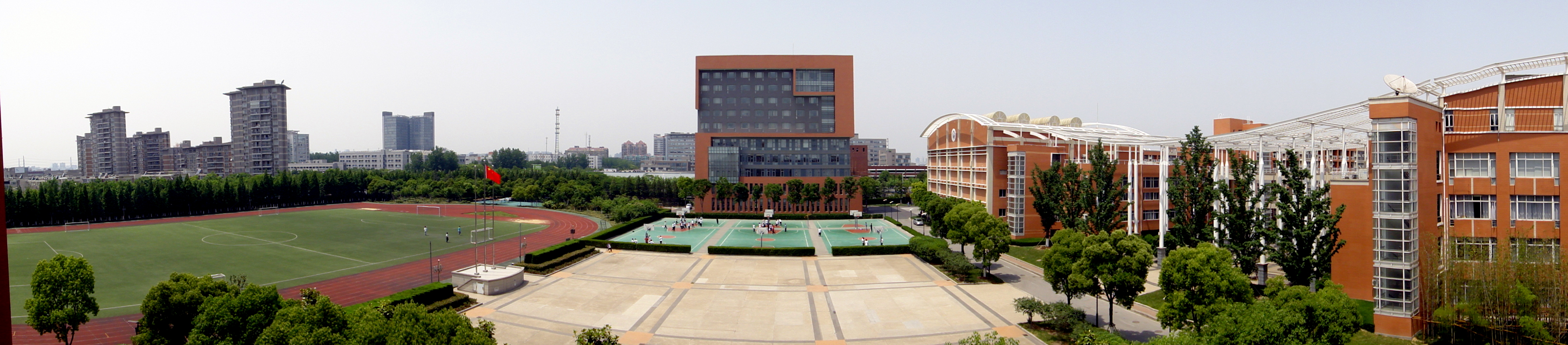 Panorama of No.2 High School of East China Normal University